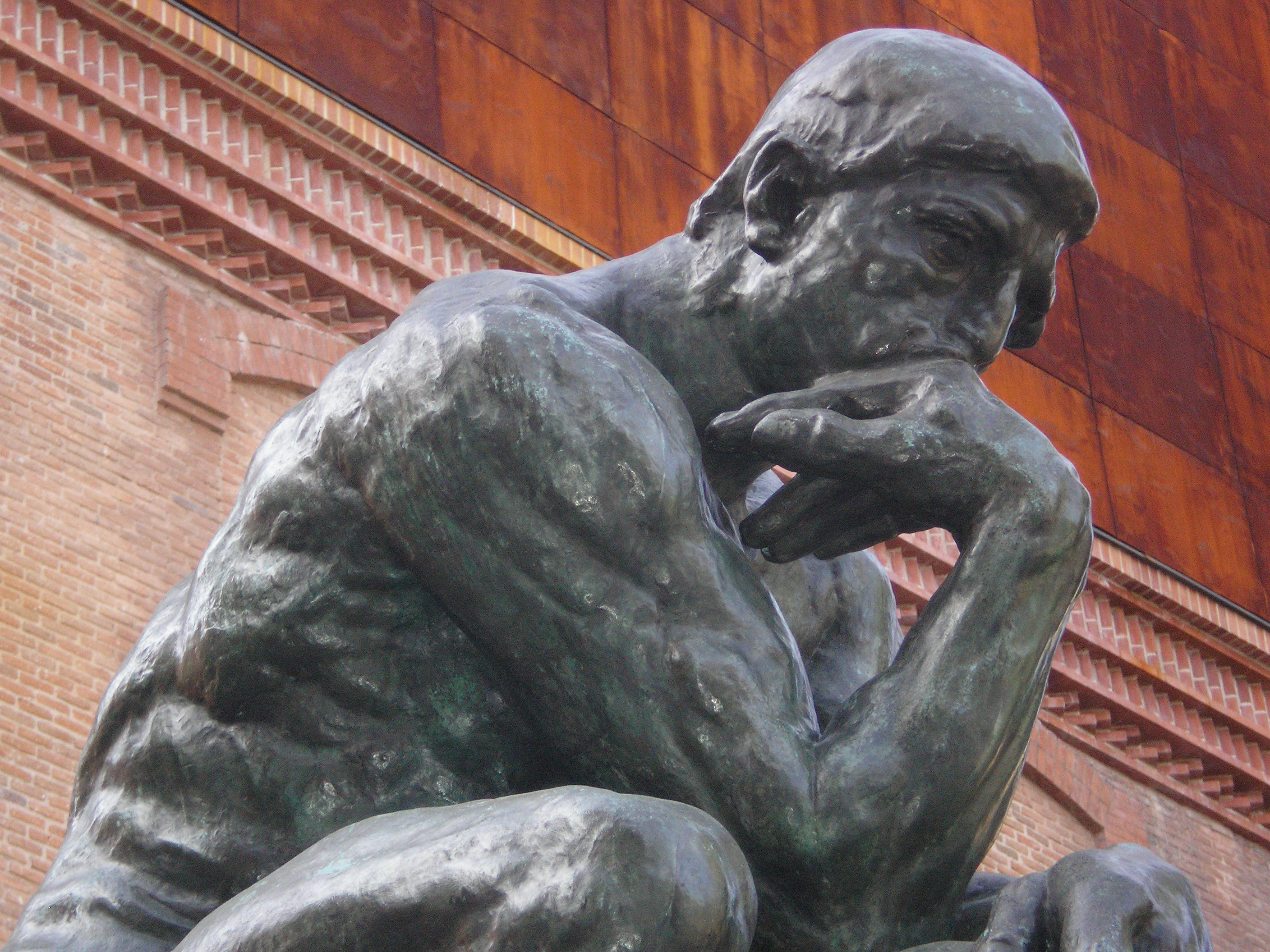 The Thinker, sculpture by Auguste Rodin, in Madrid.